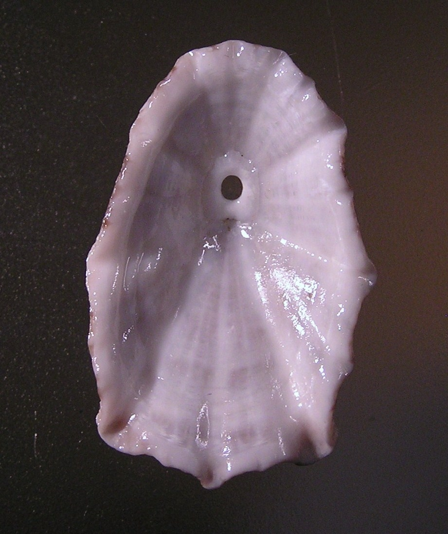 Diodora elizabethae E. A. Smith, 1901, a keyhole limpet from the family Fissurellidae; South Africa